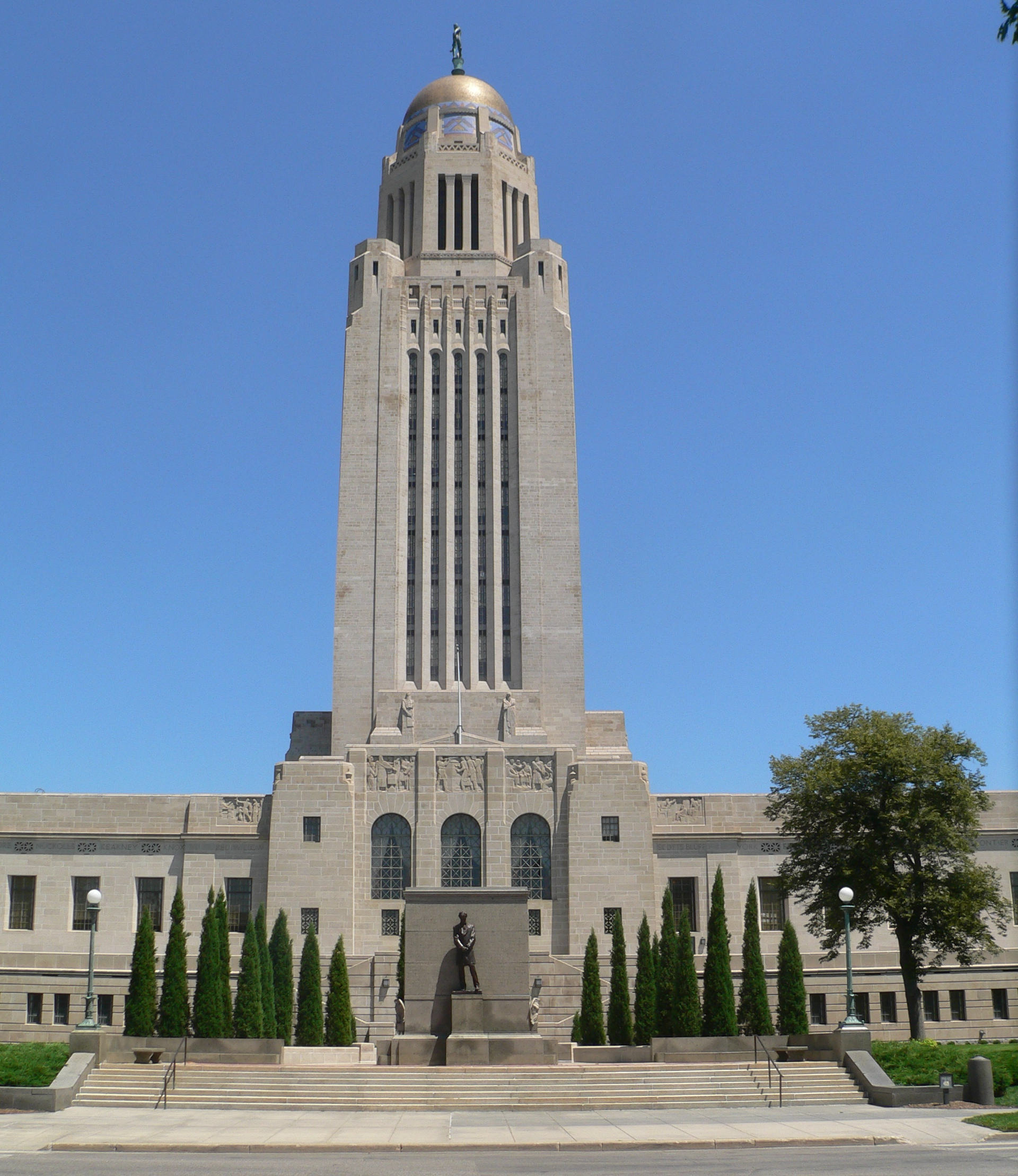 Nebraska State Capitol in Lincoln, Nebraska; seen from the west, looking east along Lincoln Mall from between 13th and 14th Streets. At the lower center of the photo is Daniel Chester French's sculpture of Abraham Lincoln.